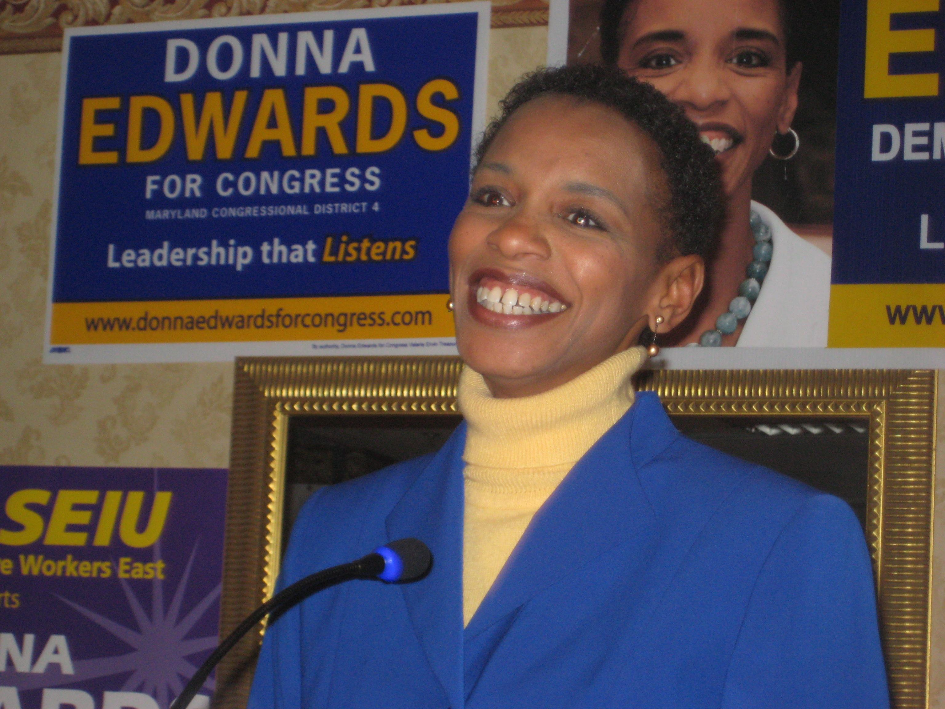 Donna Edwards at victory rally for her 2008 congressional primary